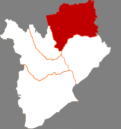 Location of Zhenlai county in Baicheng City, China